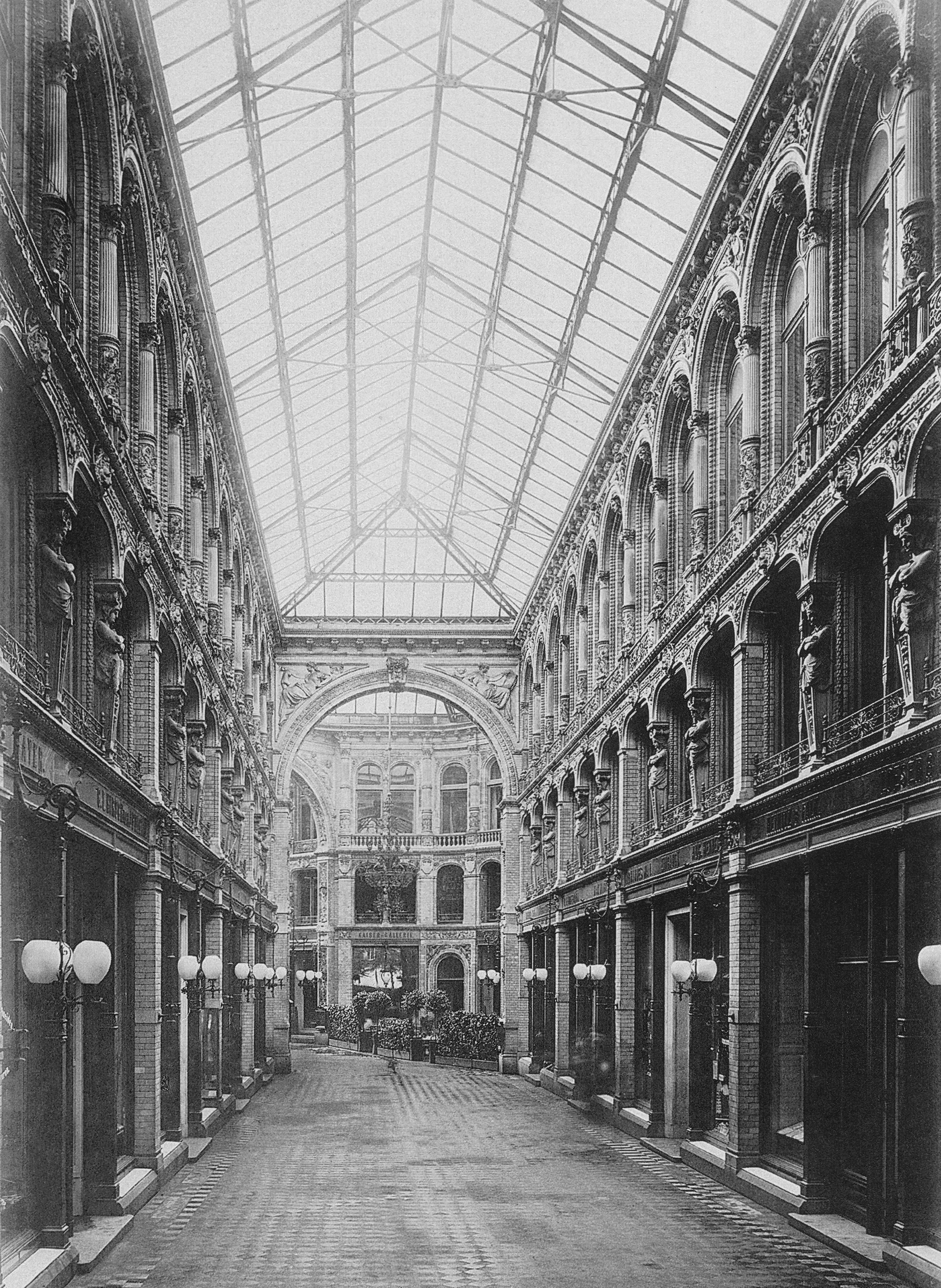 The interior of Kaisergalerie (Emperor Gallery) in Berlin in 1881, built 1869 to 1873 by Walter Kyllmann und Adolf Heyden. Photo by Hermann Rückwardt (1845-1919).